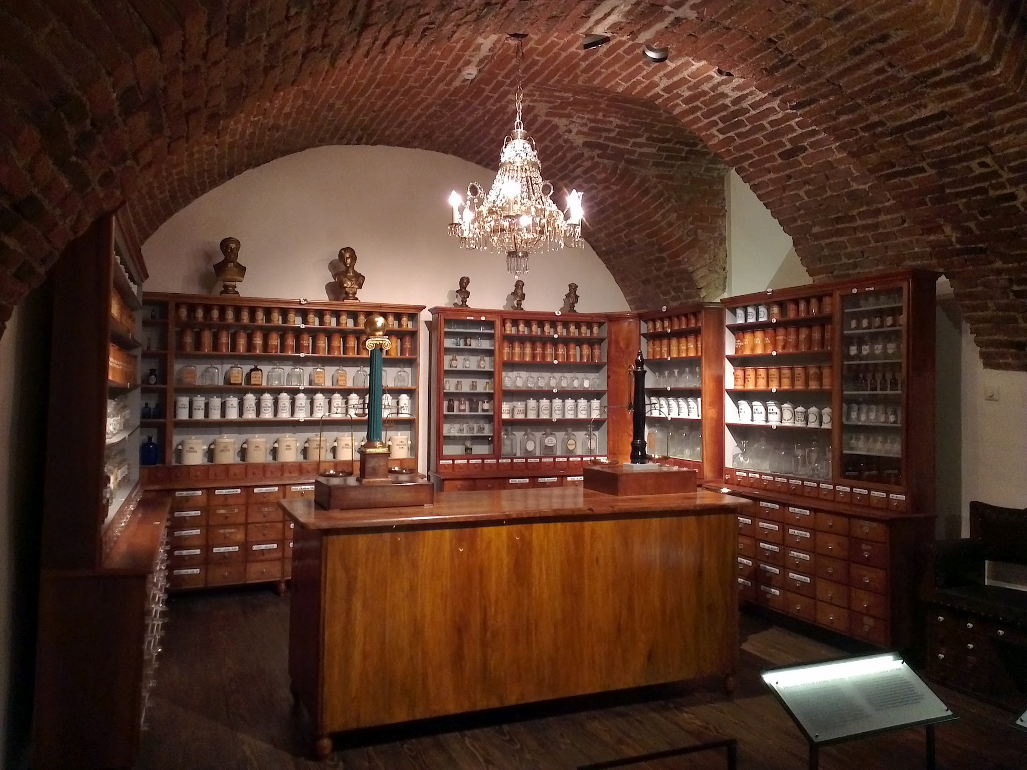 Ars pharmaceutica – The art of pharmacy